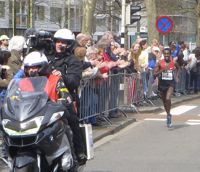 Tilahun regassa on first place marathon rotterdam in 2013